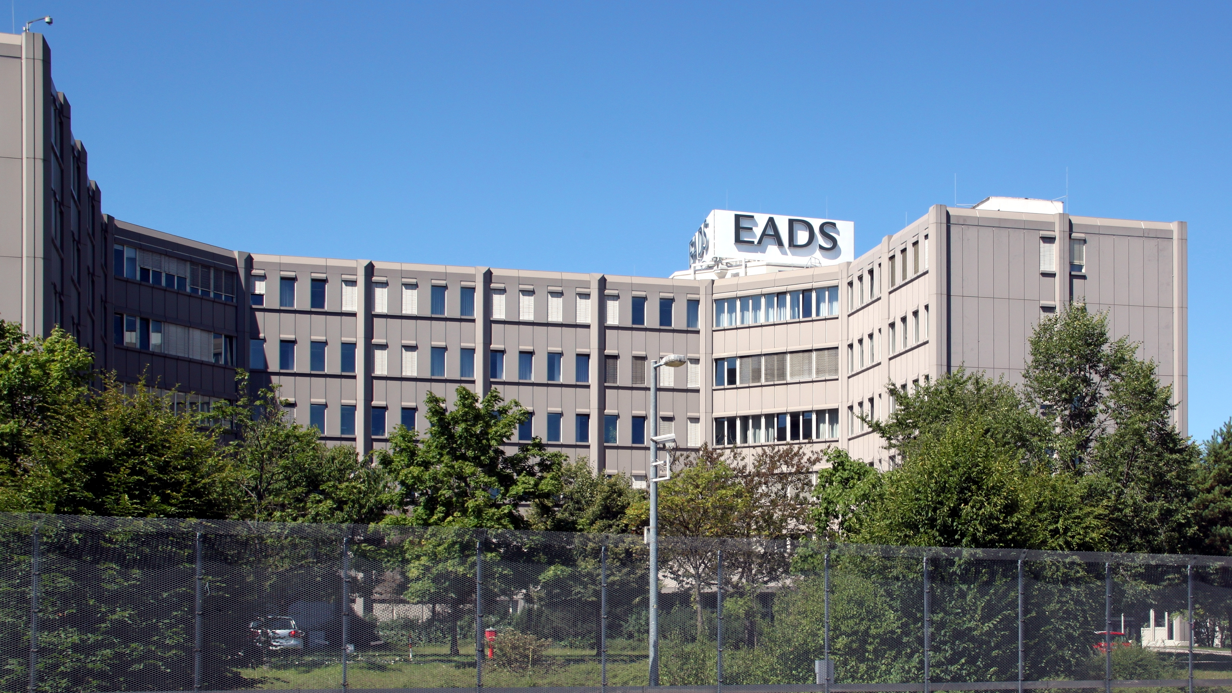 Taufkirchen: EADS Deutschland GmbH headquarter (#74 building)